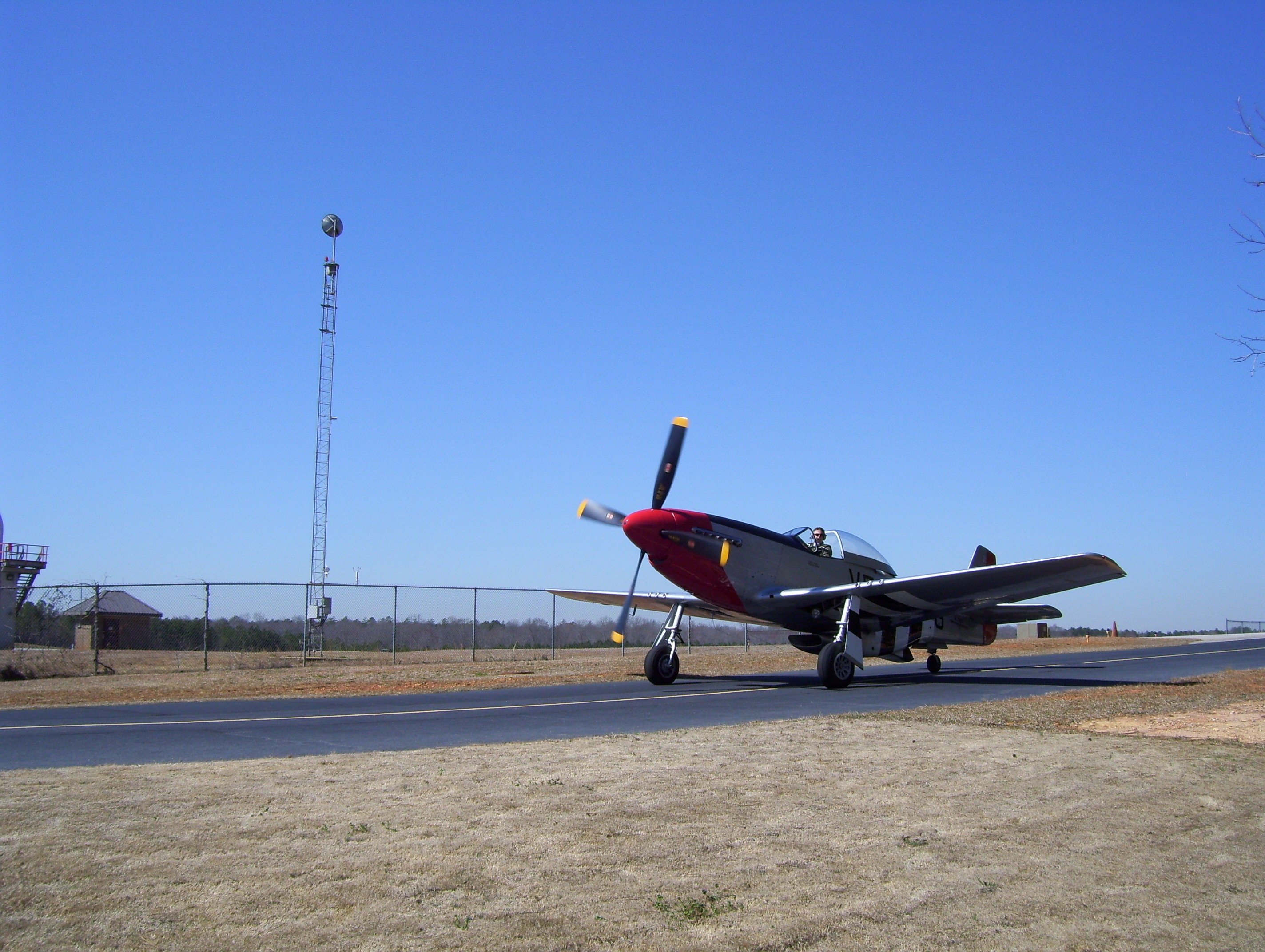 mine